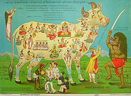 Chaurasi Devataon-wali Gai, or "The Cow with 84 deities" by Raja Ravi Varma The demon with sword states, "O human beings, watch the meat eaters in Kali yuga". The man in the front of the cow with raised hands states, "please don't kill, the cow is the life source for everyone". Below the cow, a community of diverse background is sharing milk and milk products. Above the cow, are two Sanskrit verses (shlokas) about the selfless giving by the cow, a virtue like those of one's parents and the gods. Inside the cow are drawn images of the major Hindu gods and goddesses. This was part of pamphlets circulated by various Agorakshanasabh (“cow protection leagues”) and “wandering ascetics” as a protest against cattle slaughter. For the painting's history and significance: Pinney, Christopher. Photos of the Gods: The Printed Image and Political Struggle in India. Reaktion Books, 2004 (ISBN 1861891849)